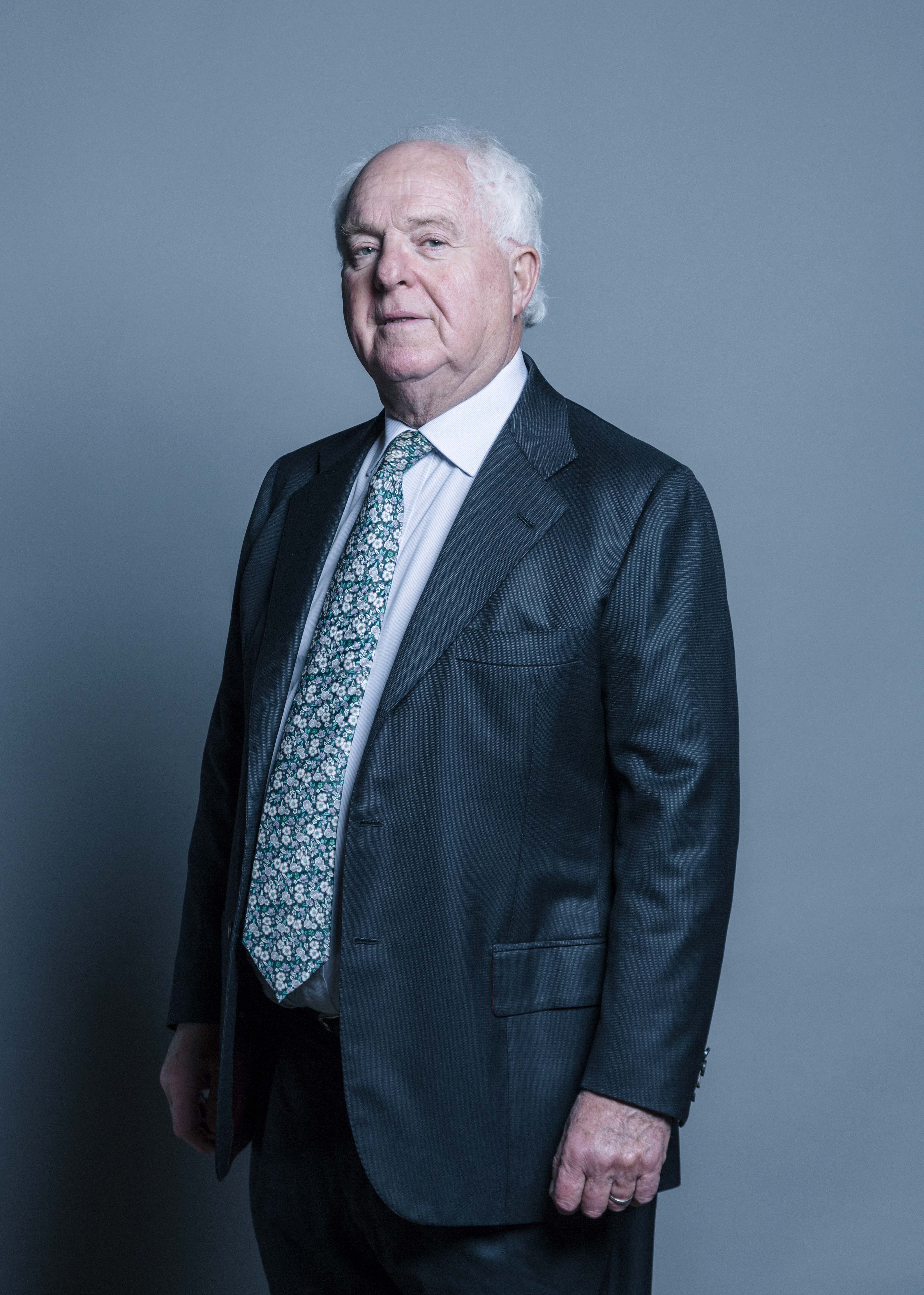 Official portrait of Lord Mitchell